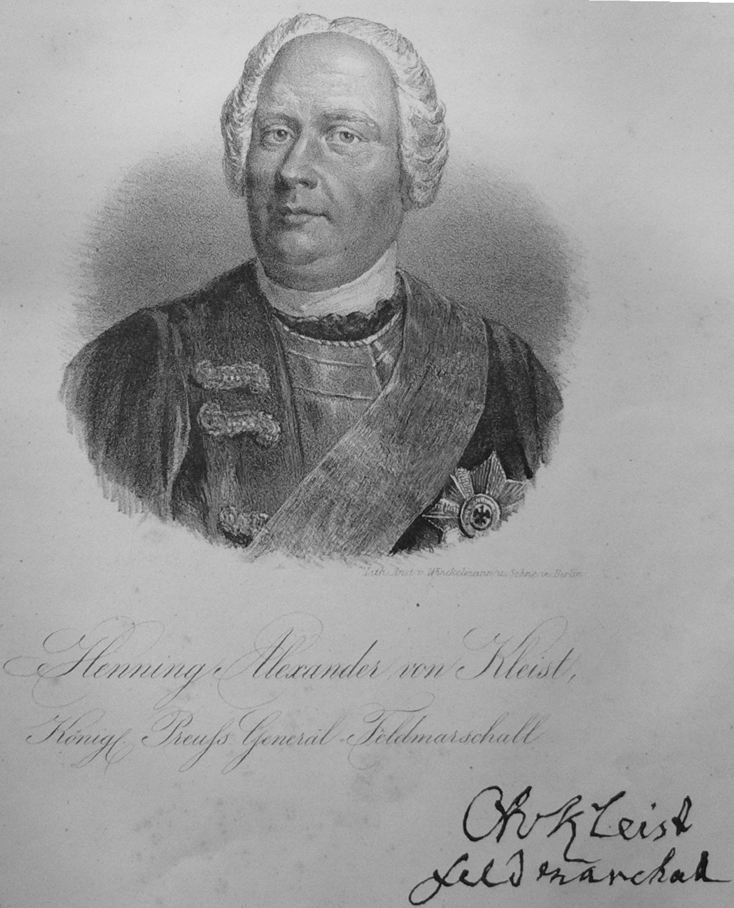 Image of Henning Alexander von Kleist